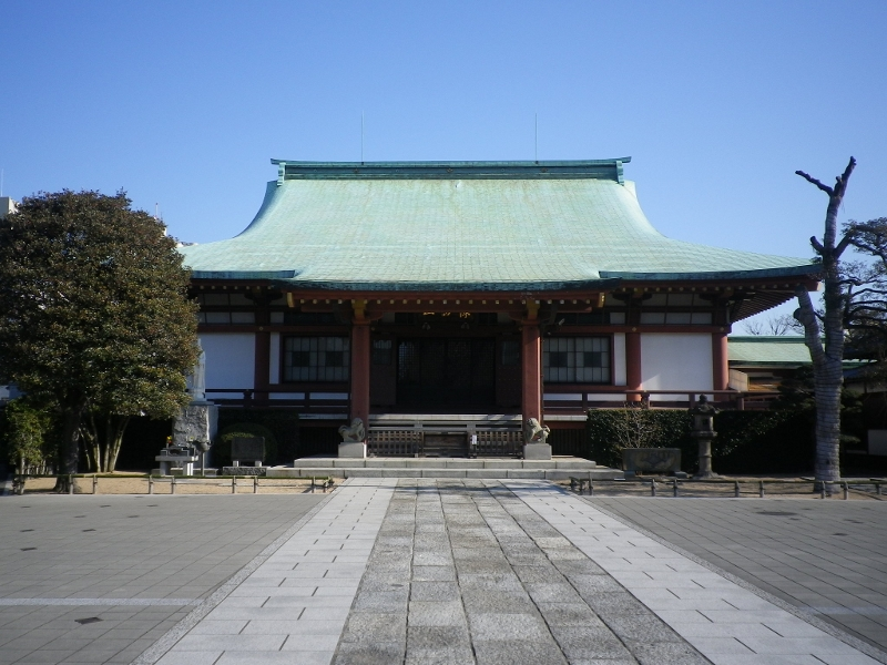 Kichijō-ji temple in Bunkyo, Tokyo